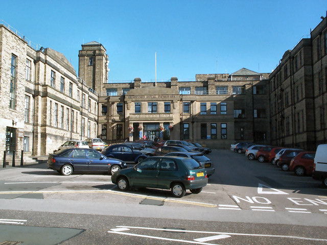 Bradford Royal Infirmary. Main entrance